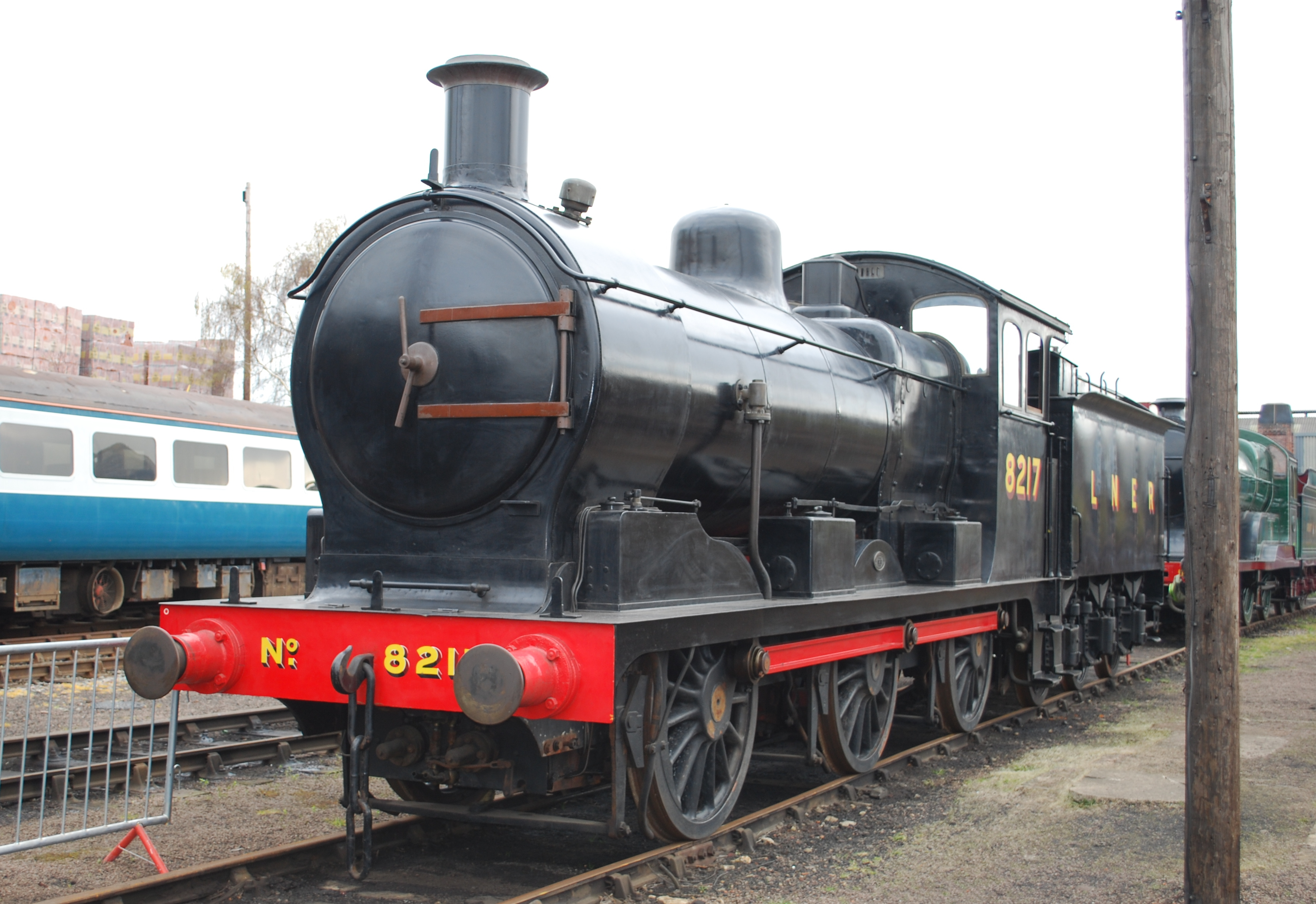 GER Holden Class "G58"/LNER Class "J17" 0-6-0 GER No.1217; LNER Nos.1217E; 8217; 5567; BR No.65567 in LNER livery at Barrow Hill Roundhouse, 04/12.